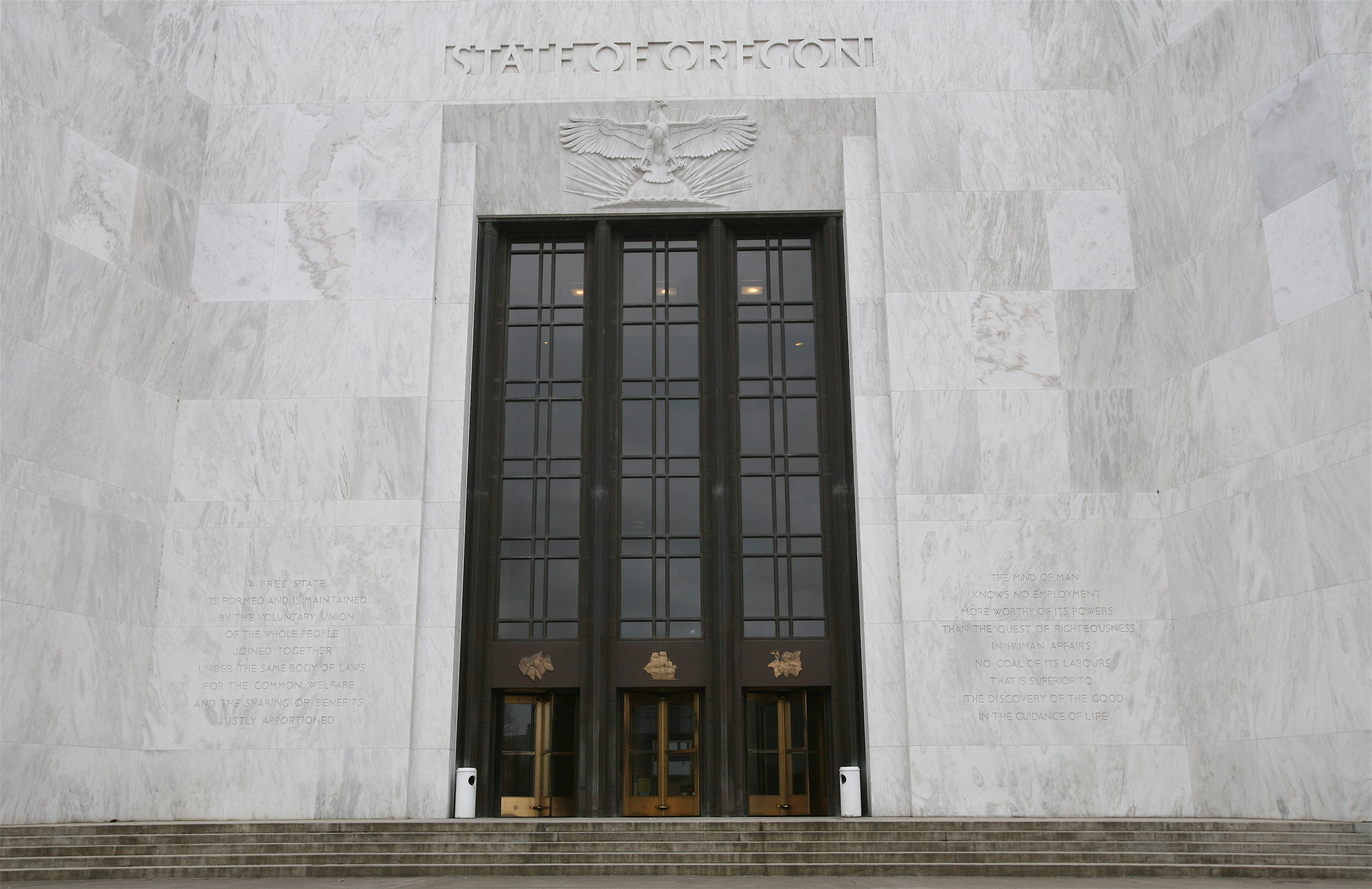 The entryway to the Oregon State Capitol Building.